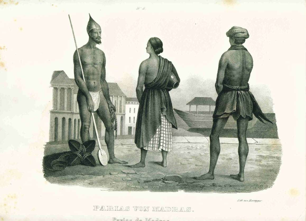 "Pariahs of Madras," a German engraving, 1870's* Source: ebay, Feb. 2009